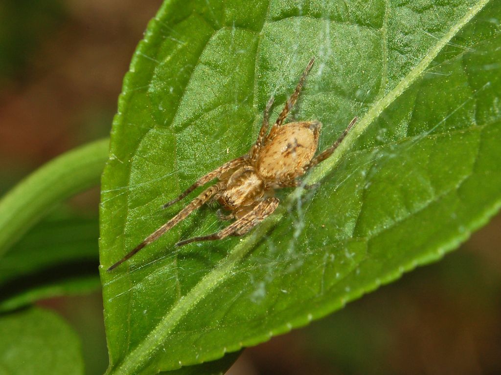 Anyphaena species in Genova, Italy